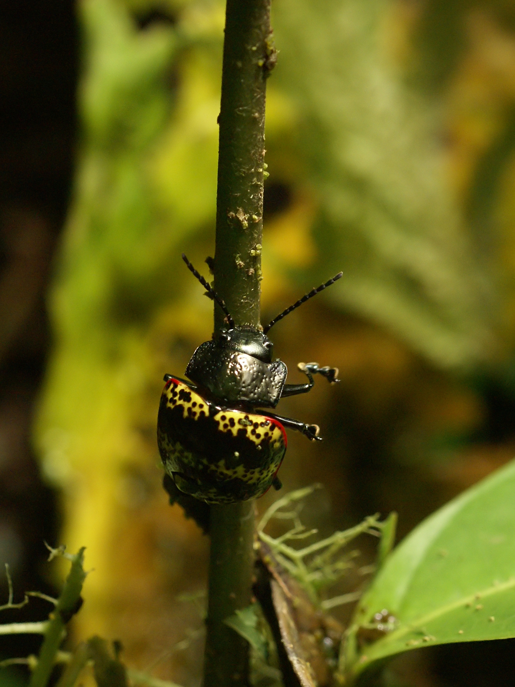 Chrysomelid beetle at Puentes colgantes close to Arenal, Costa Rica.